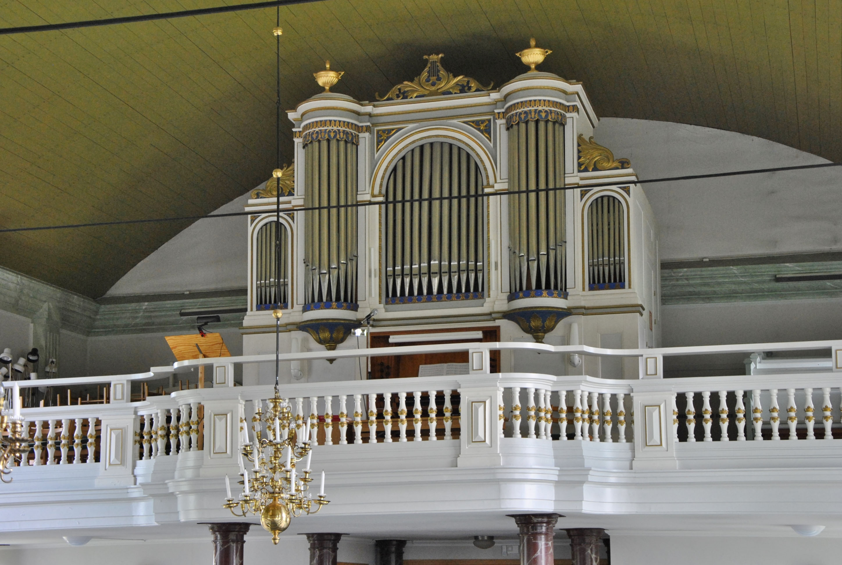 Ekeberga Church.The organ